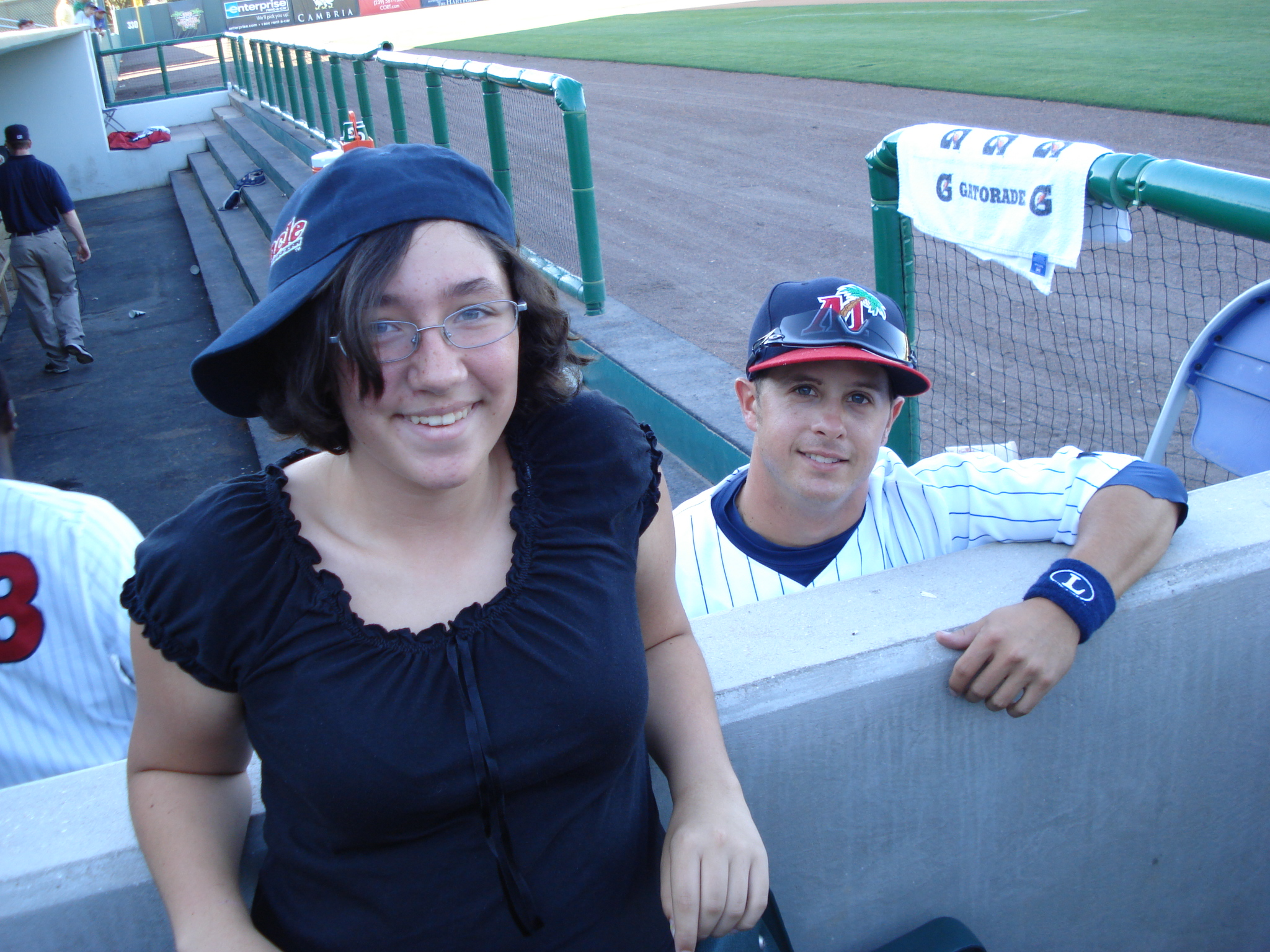 Fort Myers Miracle Shortstop Chris Cates